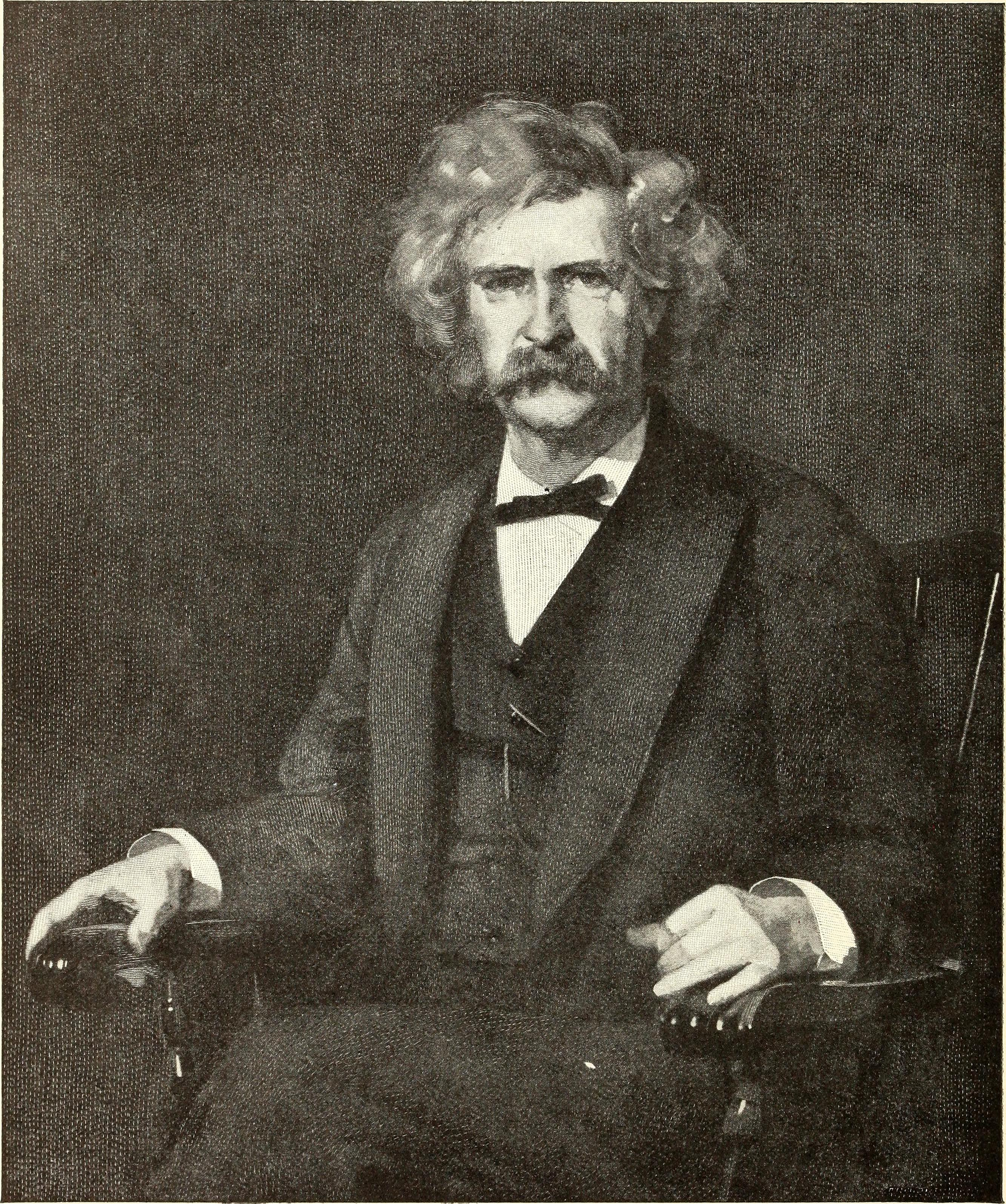 Title: McClure's magazine Year: 1893 (1890s) Authors: McClure, S. S. (Samuel Sidney), 1857-1949 Subjects: Publisher: New York : S.S. McClure Text Appearing Before Image: DECORATIVE PANEL. FROM A PAINTING BY CHARLES CHAPLIN. Reproduced by permission of Braun, Clement & Co., New York. Text Appearing After Image: SAMUEL L. CLEMENS (MARK TWAIN). FROM A PAINTING BY CHARLES NOEL FLAGG; NOW FIRST REPRODUCED. The original portrait, now first reproduced, hangs in Mr. Clemenss house at Hartford, Connecticut. It was paintedfor Mrs. Clemens by Mr. Flagg in 1891, when Mr. Clemens was fifty-five years old. It is reproduced here by the specialpermission of the artist. McClures Magazine. Vol. VIII. MARCH, 1897. No. 5. TELEGRAPHING WITHOUT WIRES. A POSSIBILITY OF ELECTRICAL SCIENCE. By H. J. W. Dam. I. THE MYSTERIES OF THE ETHER. AN IN-TERVIEW WITH DR. BOSE. A YEAR has elapsed since Rontgengave us the new photography. To-day, on the same general lines, we are con-fronted with something more wonderful,more important, and more revolutionarystill—the new telegraphy. Two gentlemenhave come to London at the same timefrom different countries to tell the samestory, namely, that telegraphy needs nowires, and that through walls, throughhouses, through towns, through moun-tains, and, it may possibly happen, eventhr